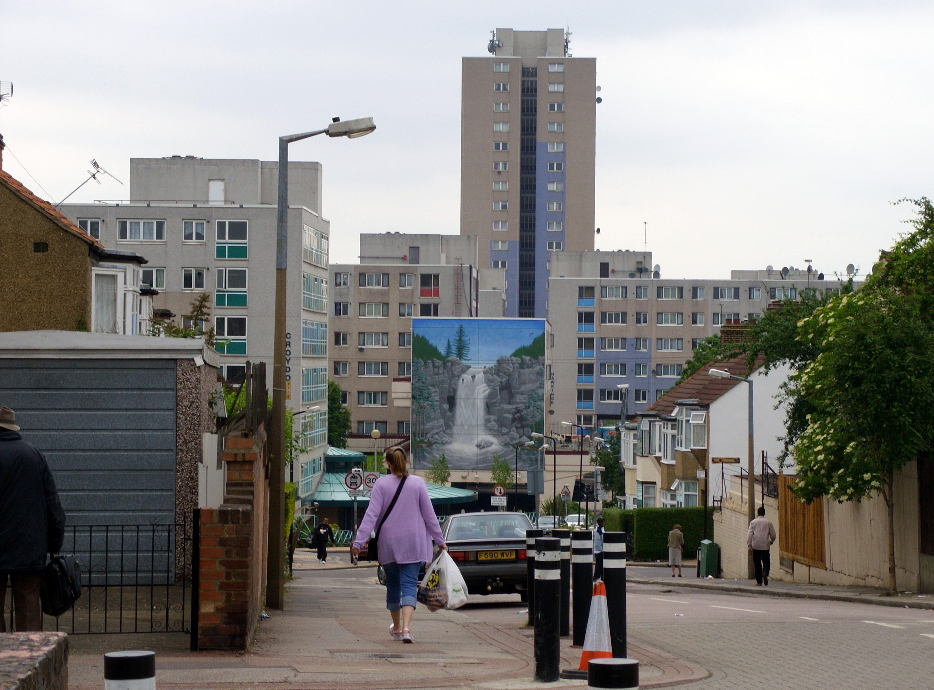 Broadwater Farm, London N17, viewed from Gloucester Road